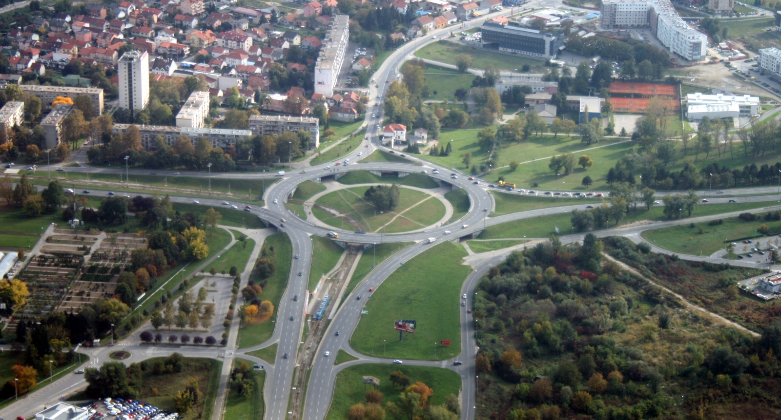 Remetinec Rotary in Zagreb, CroatiaHrvatski: Remetinečki rotor u Zagrebu (administrativno u mjesnom odboru Kajzerica), gore je Remetinec, dolje je dolazak na rotor s Jadranskog mosta, desno je smjer za Karlovac, lijevo je Novi Zagreb